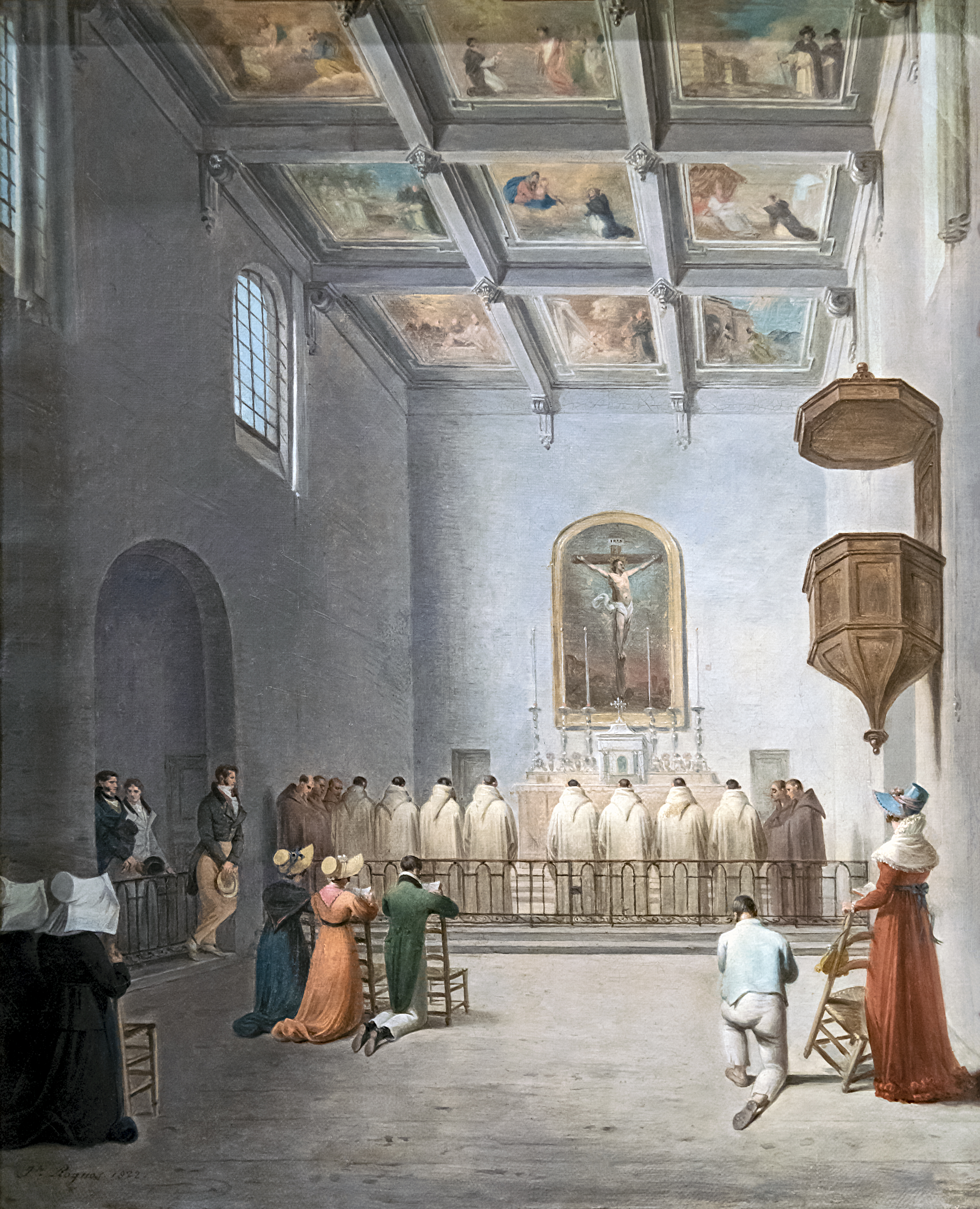 The painting shows the interior of the chapel of the inquisition in the House of St. Dominic in Toulouse in 1822. On the ceiling are scenes of the life of the saint. In 1860 the nuns had had a false ceiling of plaster put in place. The paintings were forgotten, until the early twentieth century when the painting of Roques, painted in 1822, allowed to rediscover the original ceiling of Moncornet painted in the seventeenth.